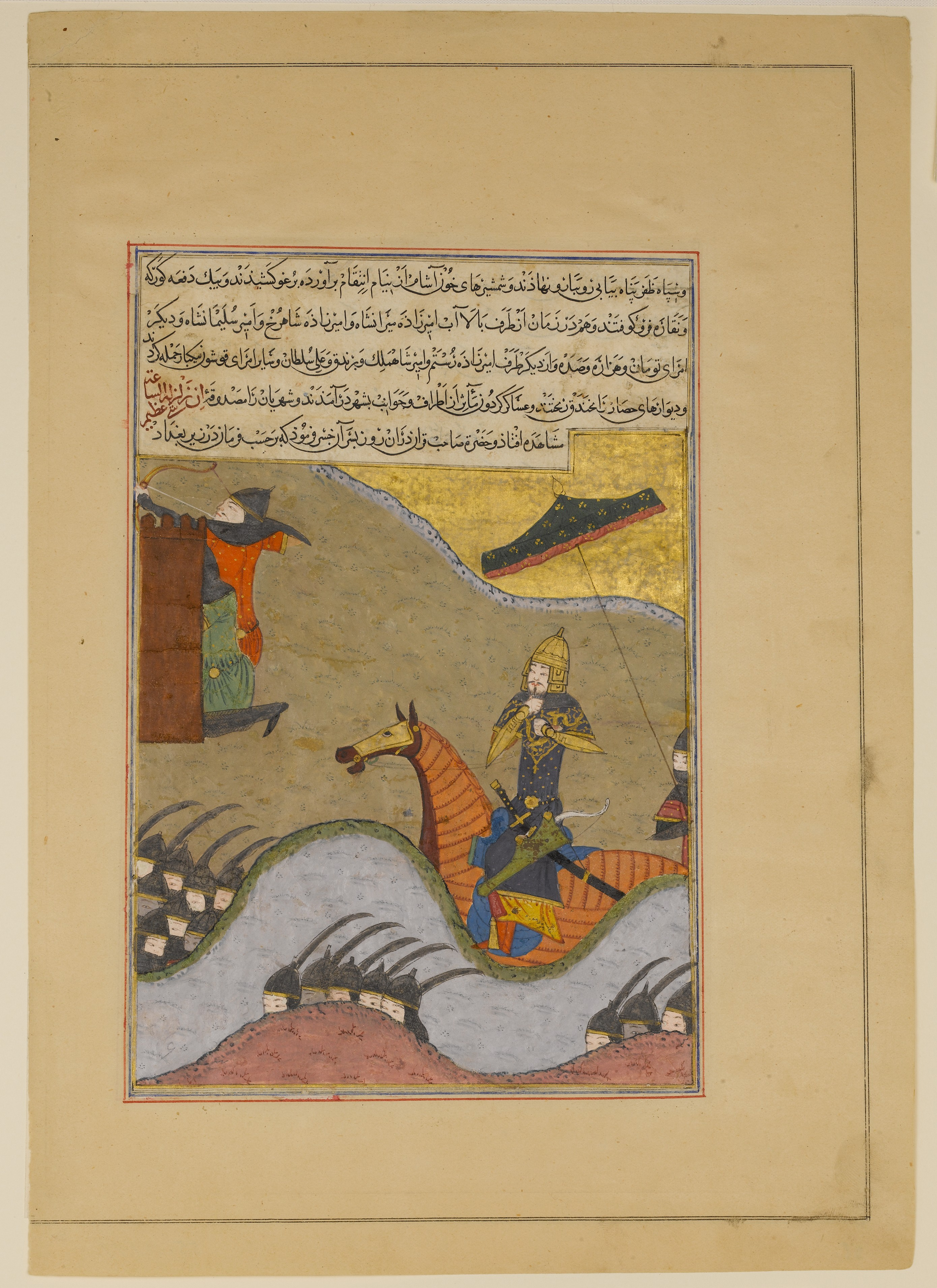 Folio from an illustrated manuscript; Codices